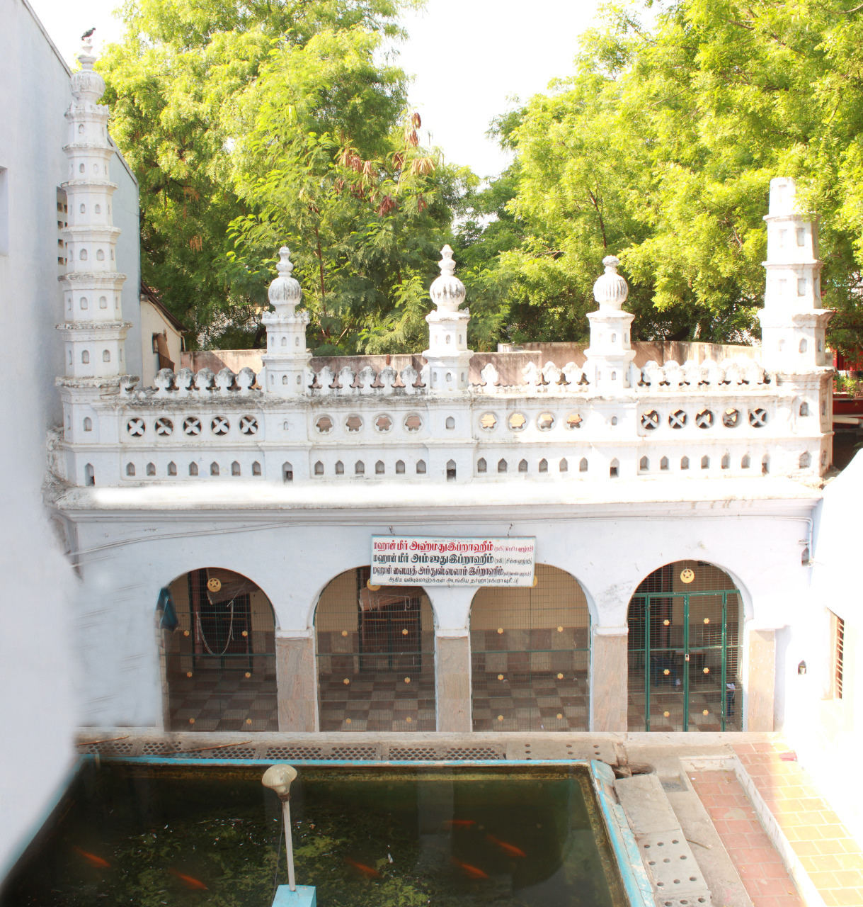 Maqbara of Madurai Hazrats located in Madurai, south Tamilnadu in India